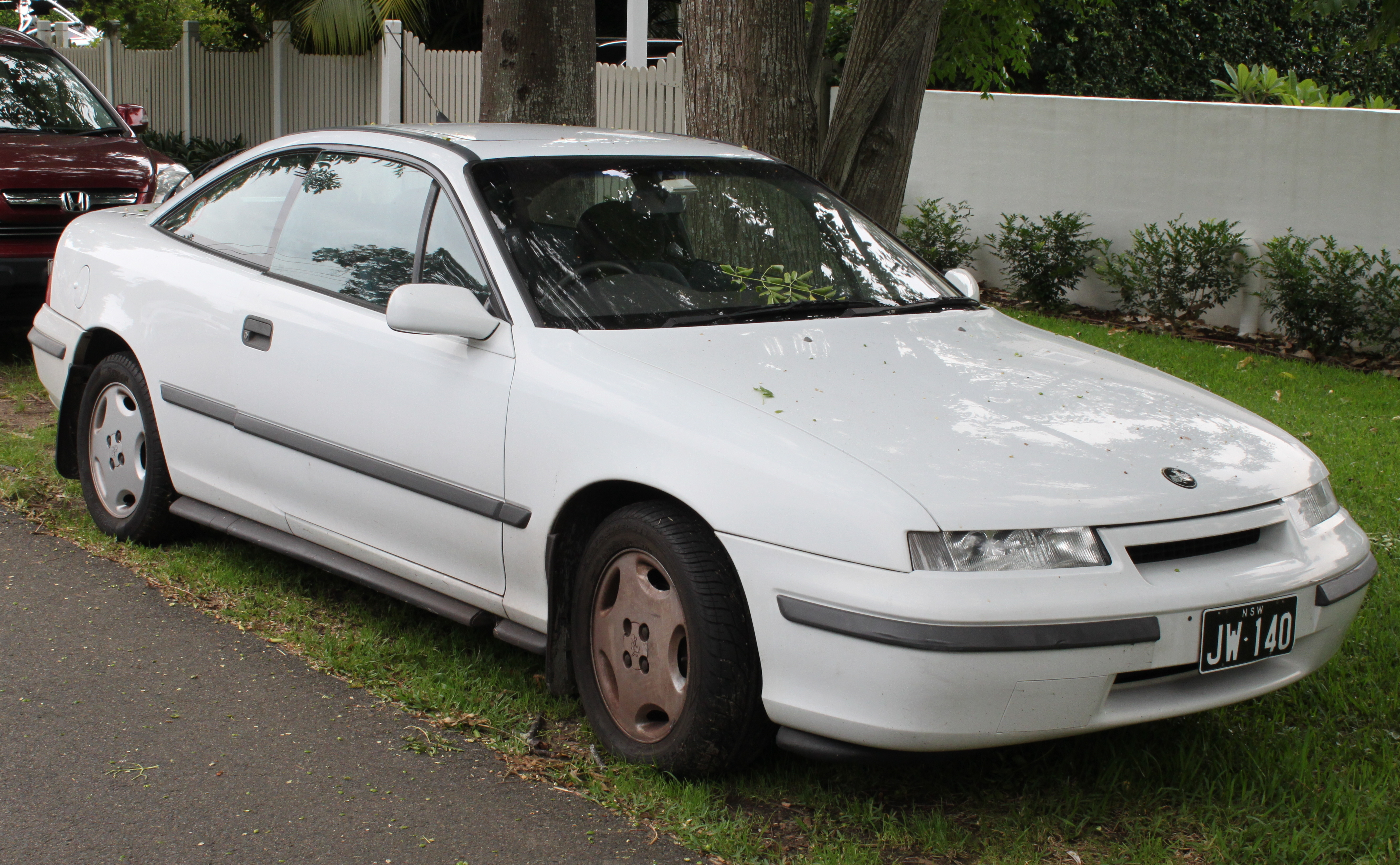 Holden Calibra YE Automatic